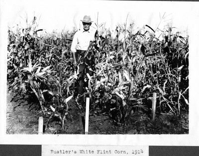 Photograph Title: Corn Photographer: Date of Photograph: March 28, 1905 Notes: Rustler's white flint corn, 1914. [Gentlemen photographed in corn field.] On recto: 272. Rustler's white flint corn, 1914. On verso: PA3.1. Keywords: corn,agricultural exhibits,experiments,montana state college,bozeman,montana Physical Description: 1 Photographic Print; b&w; 23 x 15 cm Collection Photo ID: 5826 • I represent Montana State University Library and we are releasing this image into the Creative Commons